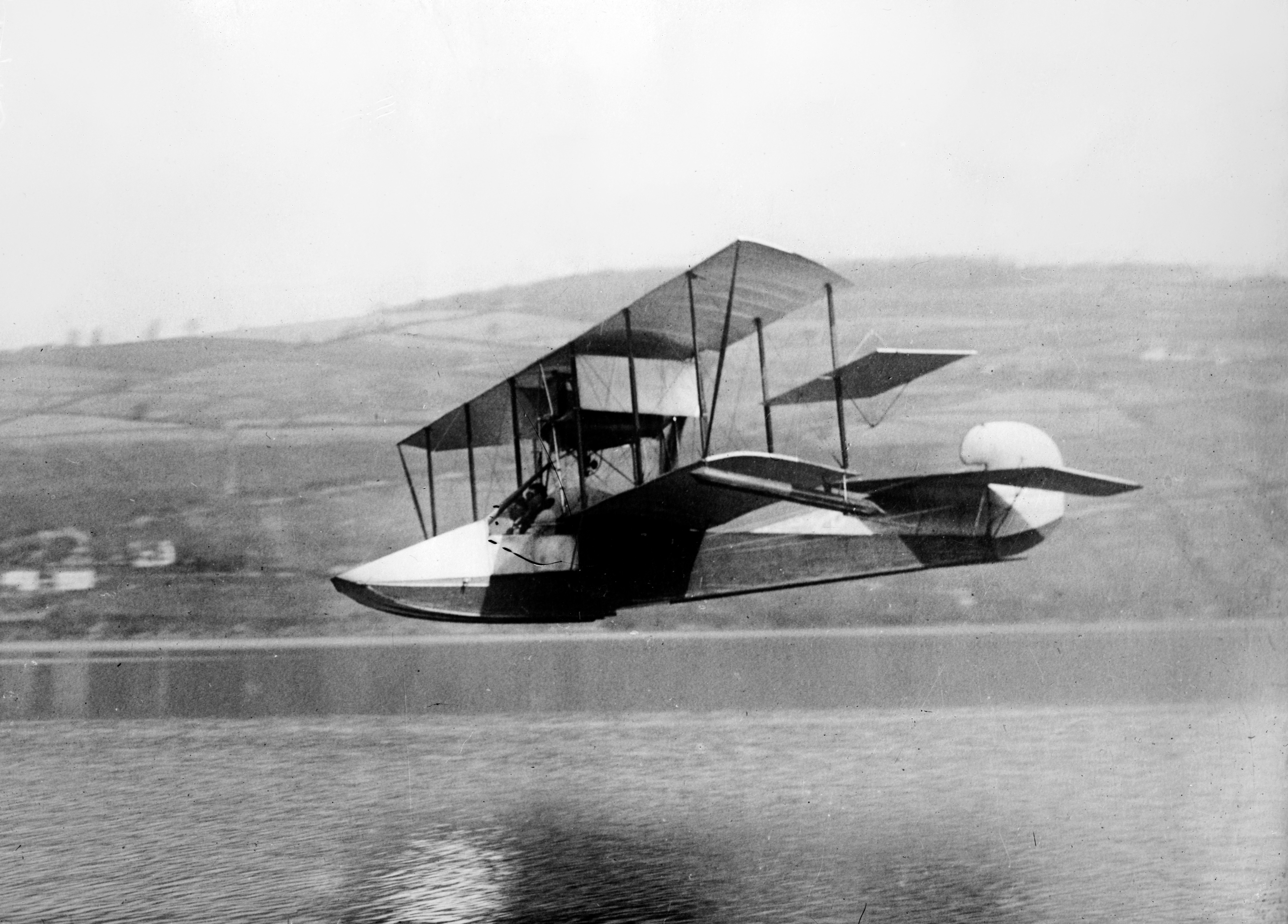 Aviation pioneer Marshall Earle Reid at Lake Keuka, New York (USA) in his Curtiss Model F seaplane.